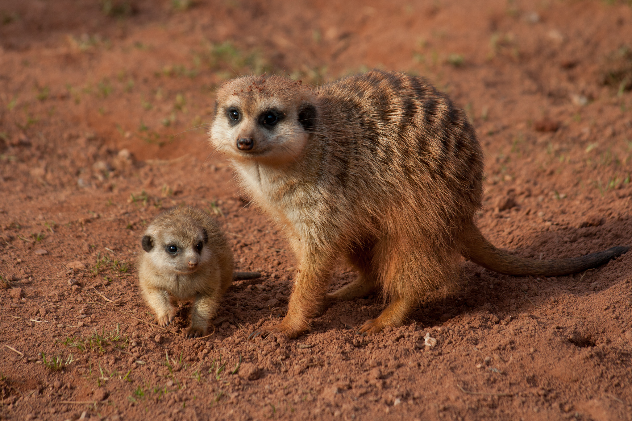 Father & Son